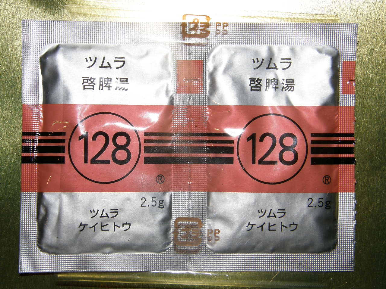 keihiotou-啓脾湯